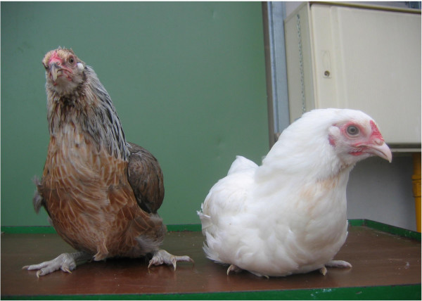 Comparison of plumage color in full sib chickens differing for their genotype at the C locus (Thyrosinase-Gen). On the left, a chicken carrying the wild type allele at the C locus exhibits a colored plumage as determined by other feather color loci. Here the animal carries the wild type allele at the Extension locus, the wild type allele at the Columbian locus and the silver allele at the Silver locus. On the right, a recessive white chicken, full sib from the previous one, exhibits full white plumage.